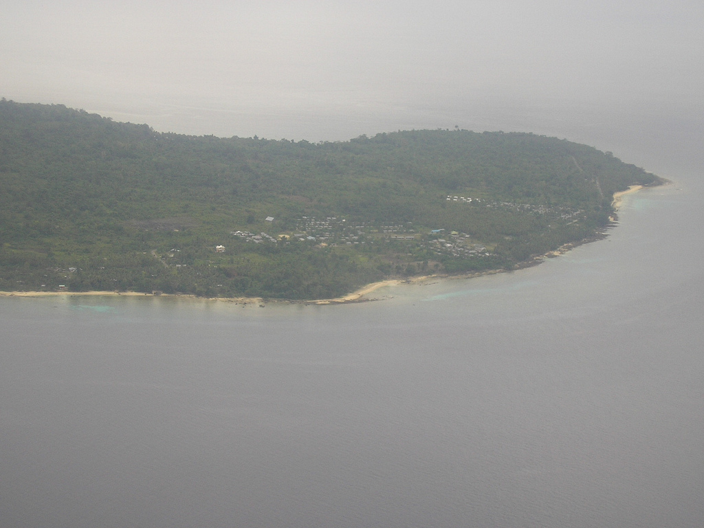 Manowari, West Papua